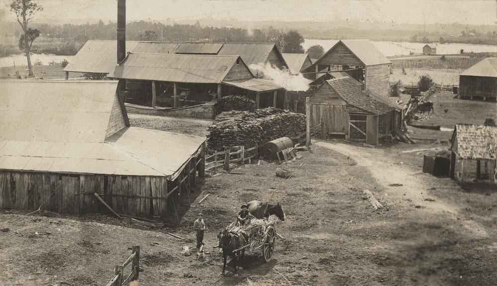 View of the Alberton Sugar Mill, 1922 The original owner of the mill was Carl Rehfeldt. His son C. F. W. Rehfeldt then became the owner. Boats collected the sugar from the shed on the river bank on the right side of the photograph. (Description supplied with photograph.).